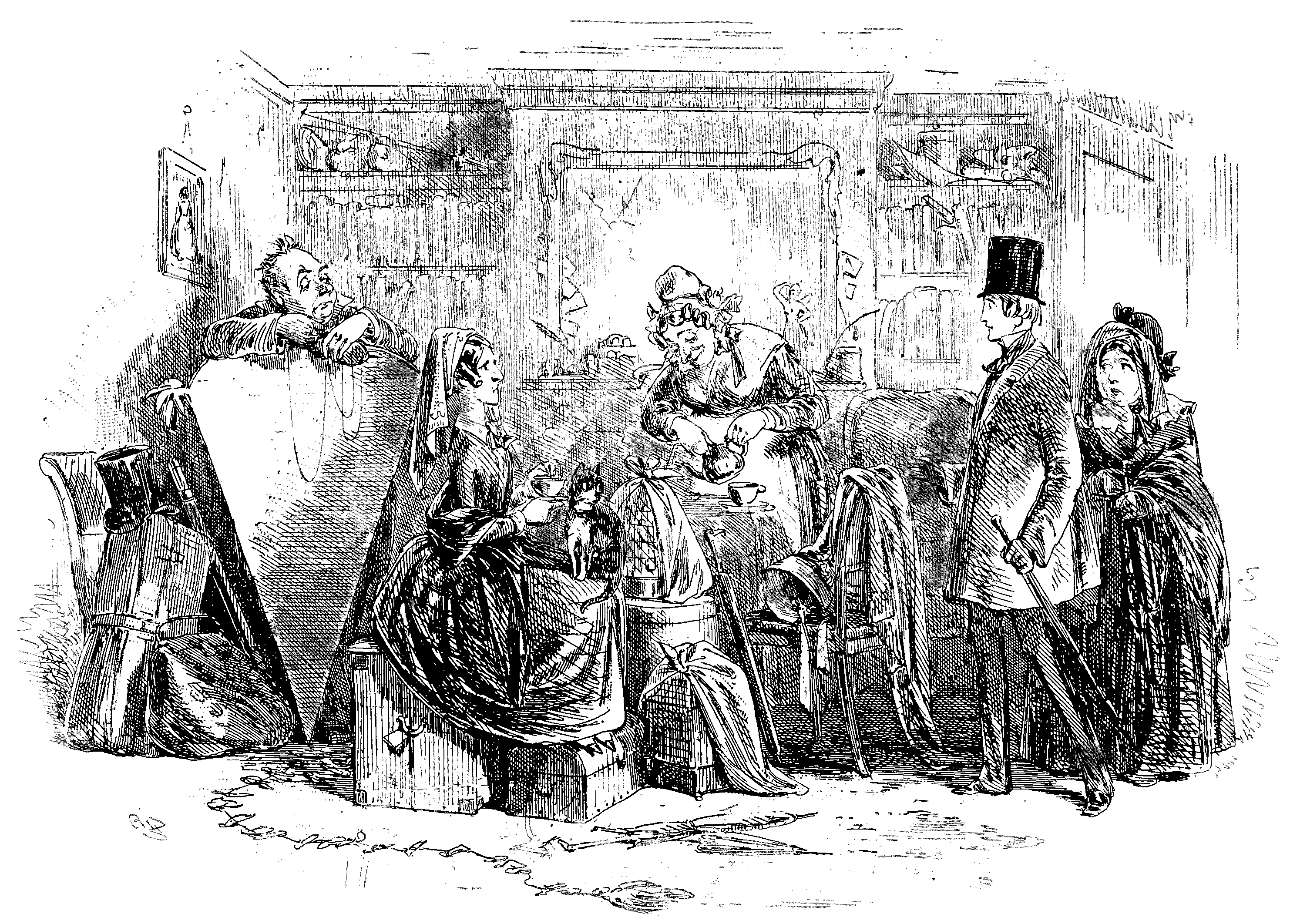 MY AUNT ASTONISHES ME